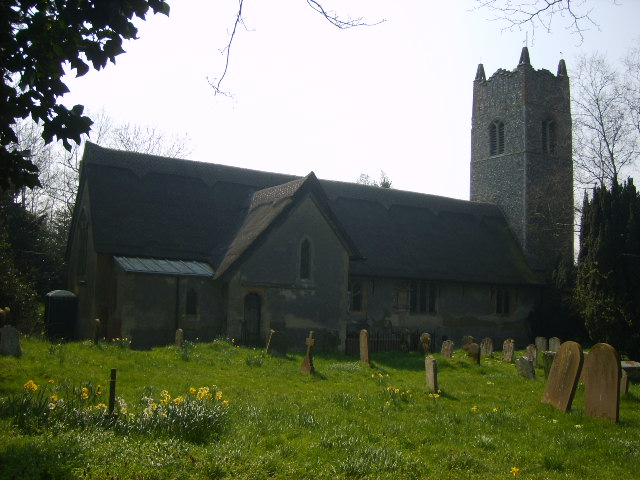 All Saints' parish church, Ringsfield, Suffolk, seen from the northeast